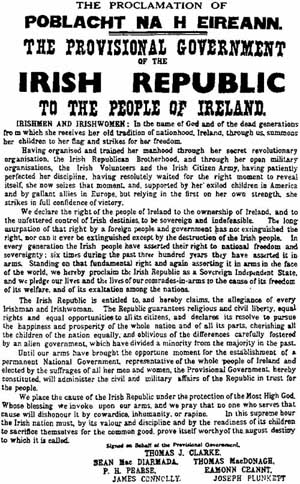 Poblacht na hÉireann